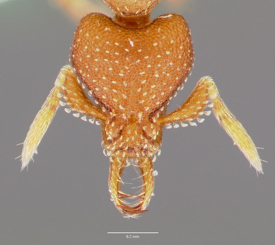 Head view of ant Strumigenys manga specimen casent0003245.